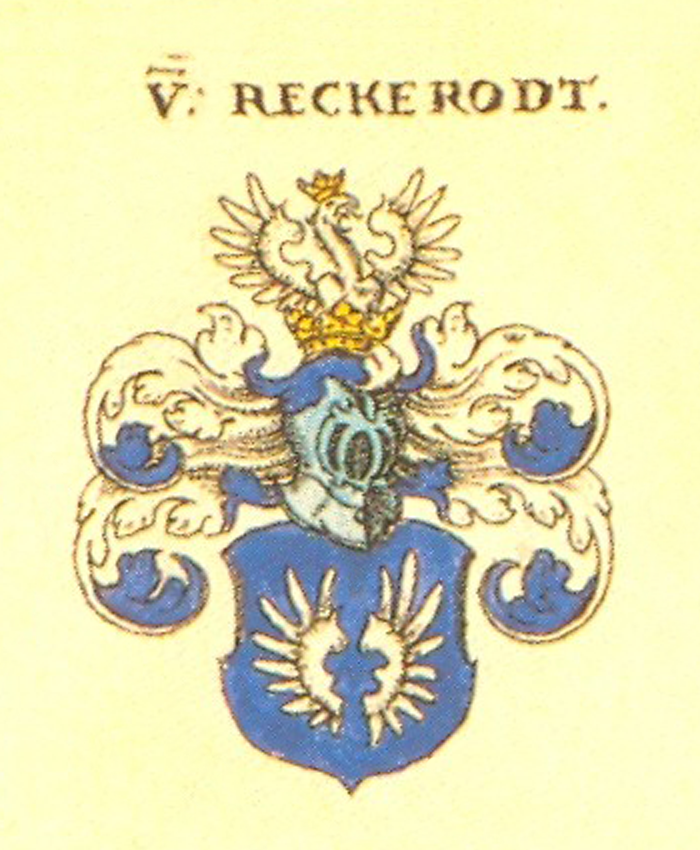 Coats of Arms of Reckrodt (Reckerodt)